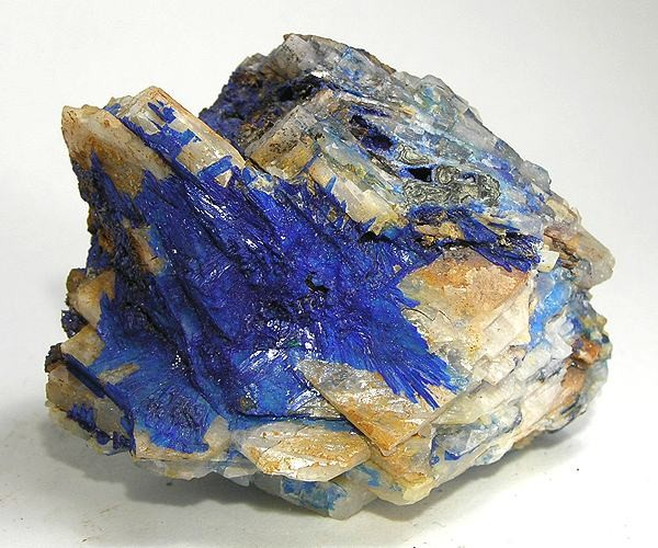 Linarite Locality: Blanchard Mine (Portalas-Blanchard Mine), Bingham, Hansonburg District, Socorro County, New Mexico, USA (Locality at ) Size: 5.6 x 4.4 x 4.4 cm. The Blanchard Mine is famous for its fluorites, but if you talk to collectors there, what they most prize are the hard-to-find specimens of bright blue (and very RARE) linarite ((Lead Copper Sulfate Hydroxide). Typically, as here, linarite forms in thin plates (or sometimes dendritic, flattened crystals) on the surface of quartz, or on galena pseudomorphed on its surface to cerussite. There is a lot of linarite here! Accompanied by a label from English dealer Ralph Sutcliffe.